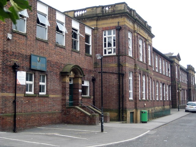 Rodillian School. Rodillian School, which was the former Rothwell Grammar School.892636